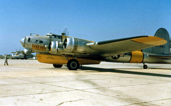 Boeing SB-17G of the 5th Rescue Squadron.